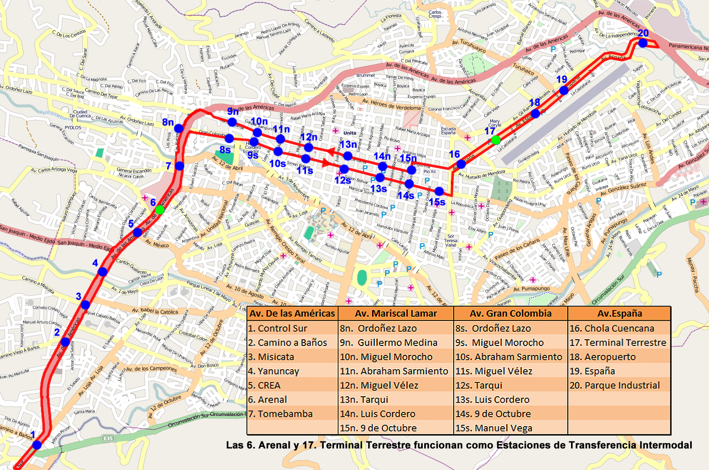 Planned route of the tram from the city of Cuenca, Ecuador. The objetive of this map is to be a reference but should NOT be regarded as accurate.